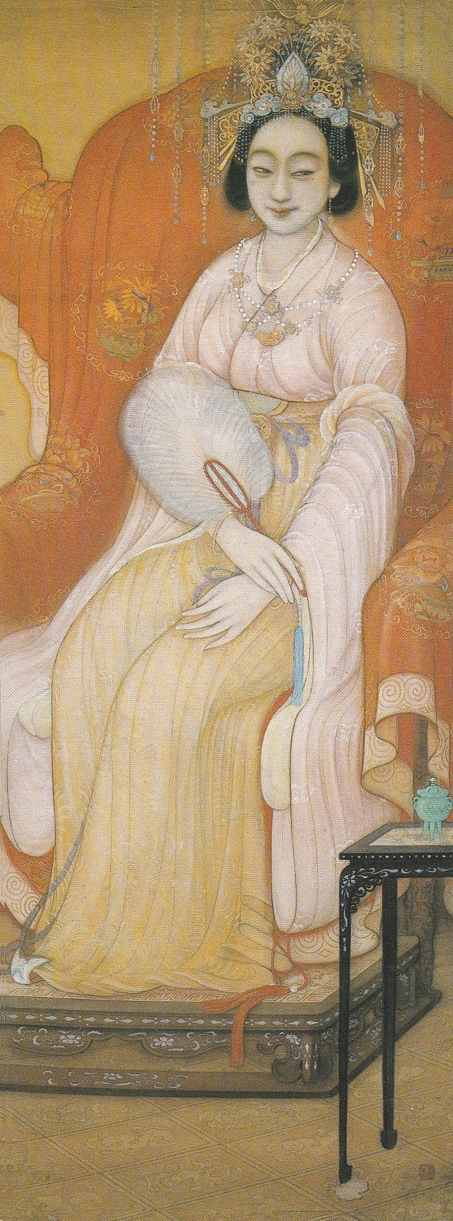 Picture of a Queen